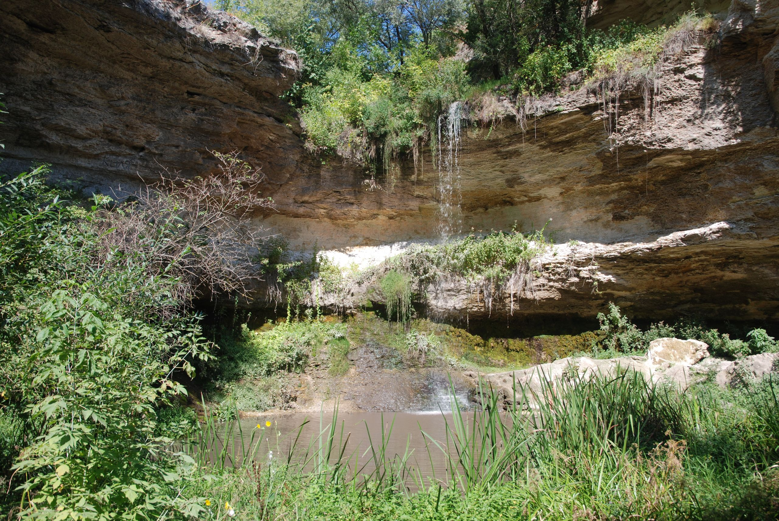 Tipova, waterfall